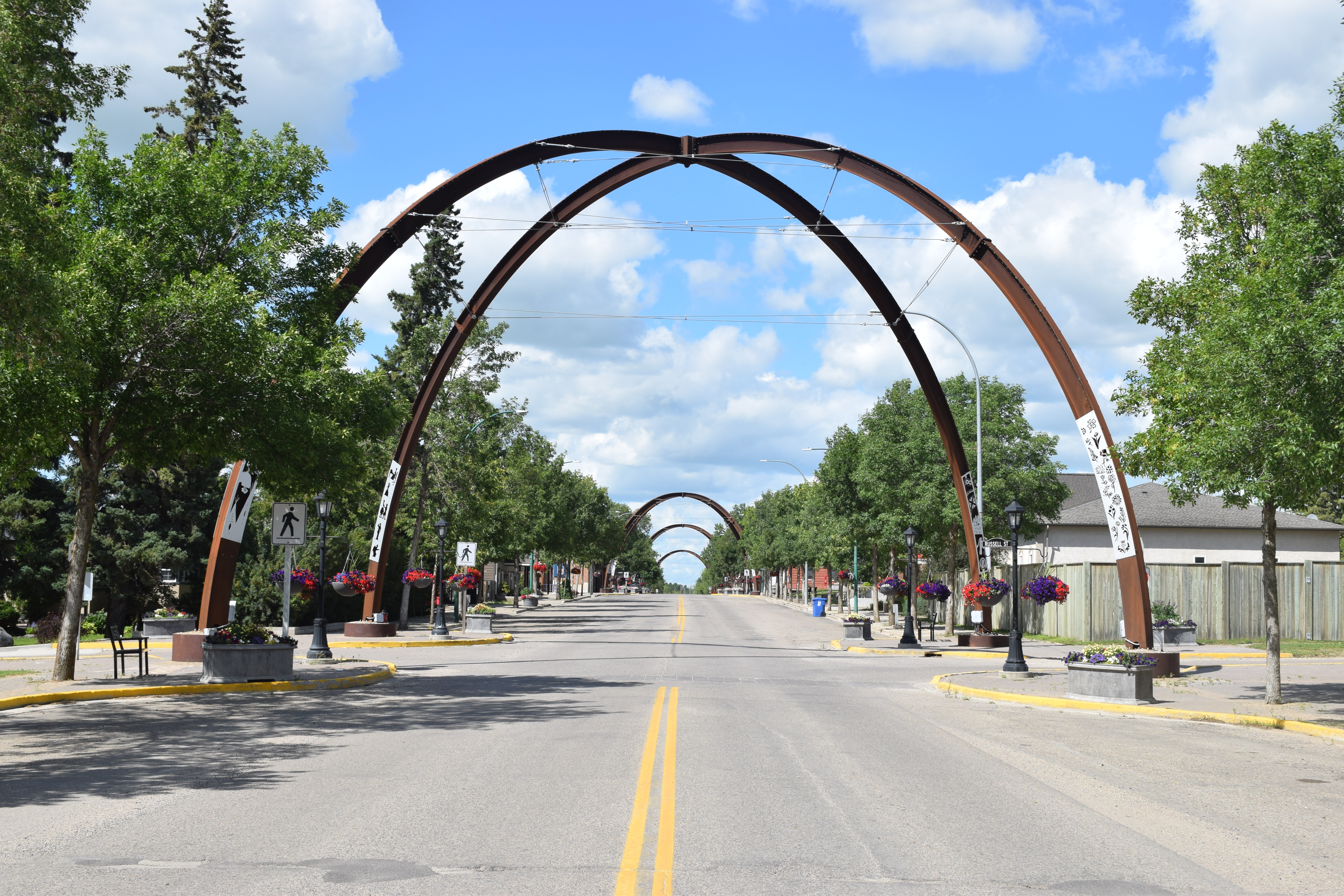 The current arches in Russell, Manitoba which replaced the original wooden trusses from the former ice hockey arena that had decayed over time.